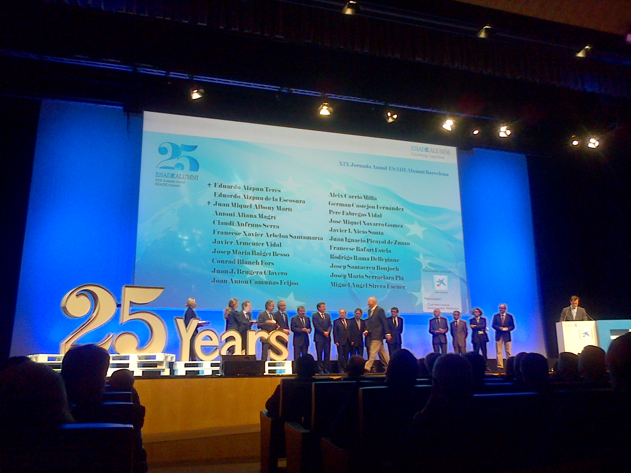 ESADE Alumni 25th Anniversary